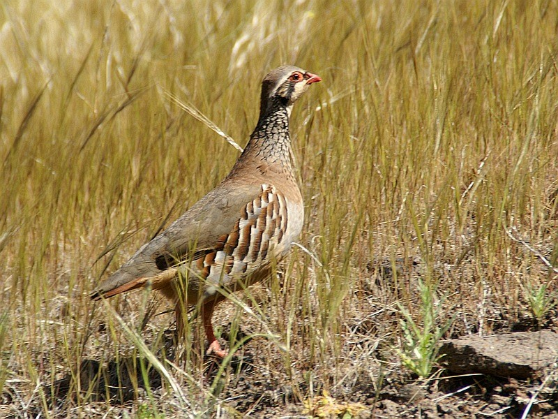 Red-legged Partridge (Alectoris rufa) above the Playa de Güigüi (Gran Canaria, Spain).